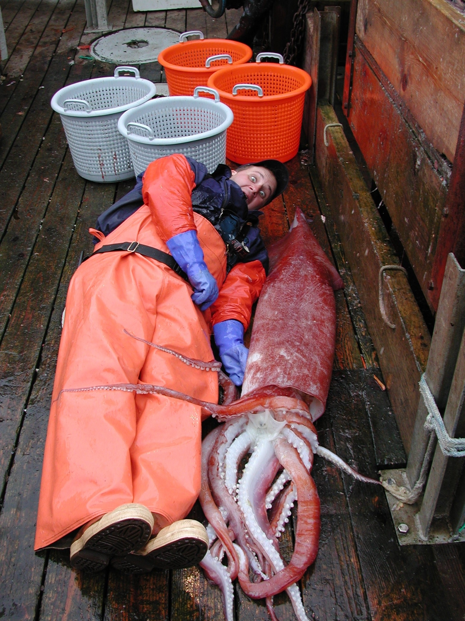 NOAA Fisheries employee Larry Hufnagle lies alongside a large squid (Moroteuthis robusta), during the 2001 west coast groundfish survey aboard the chartered F/V Excalibur. Pacific Ocean, West Coast.